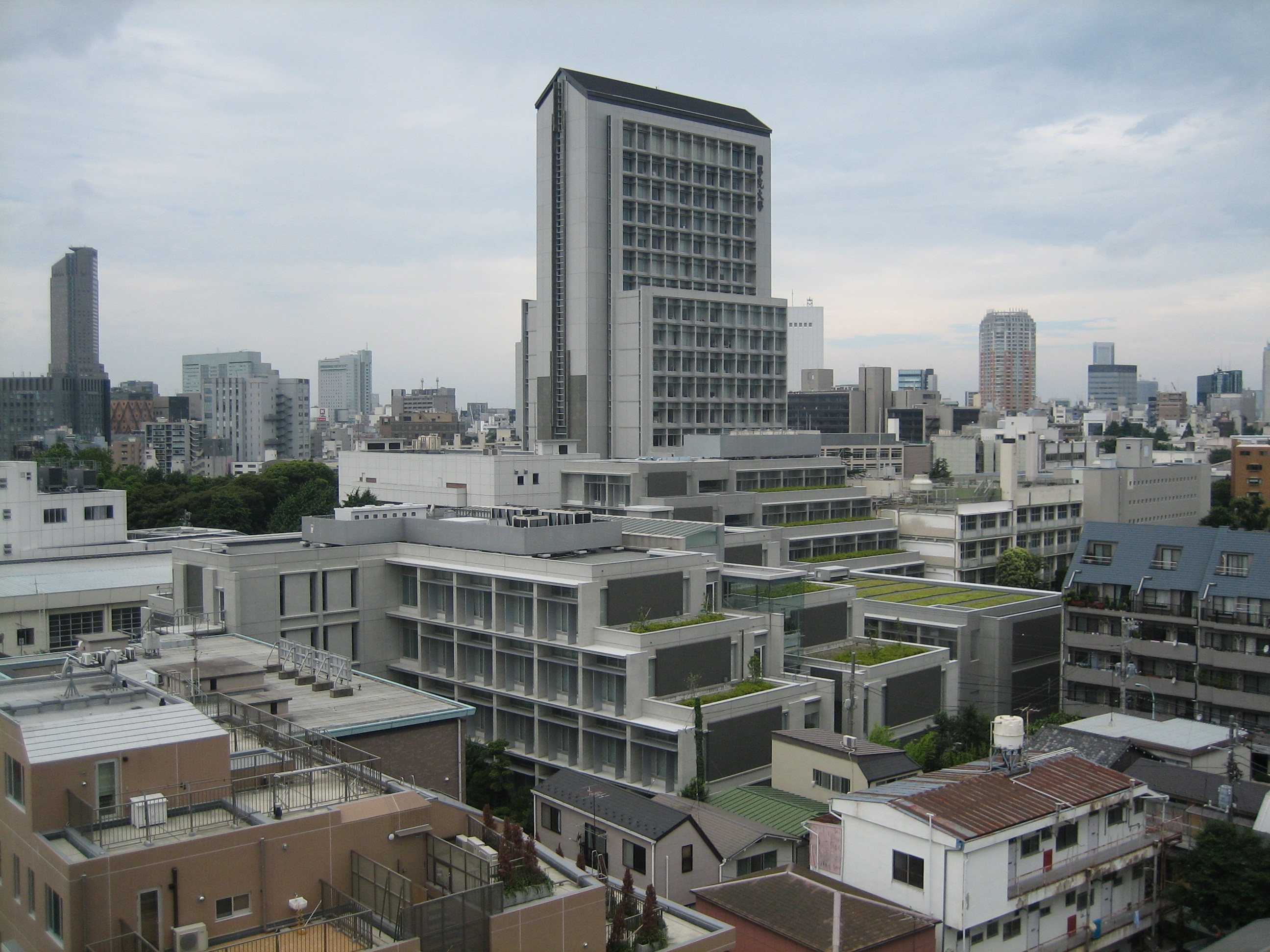 A picture of the Kokugakuin university campus in Higashi, Shibuya looking onto the newly constructed (2006)tower.Attributed to Kraig Donald